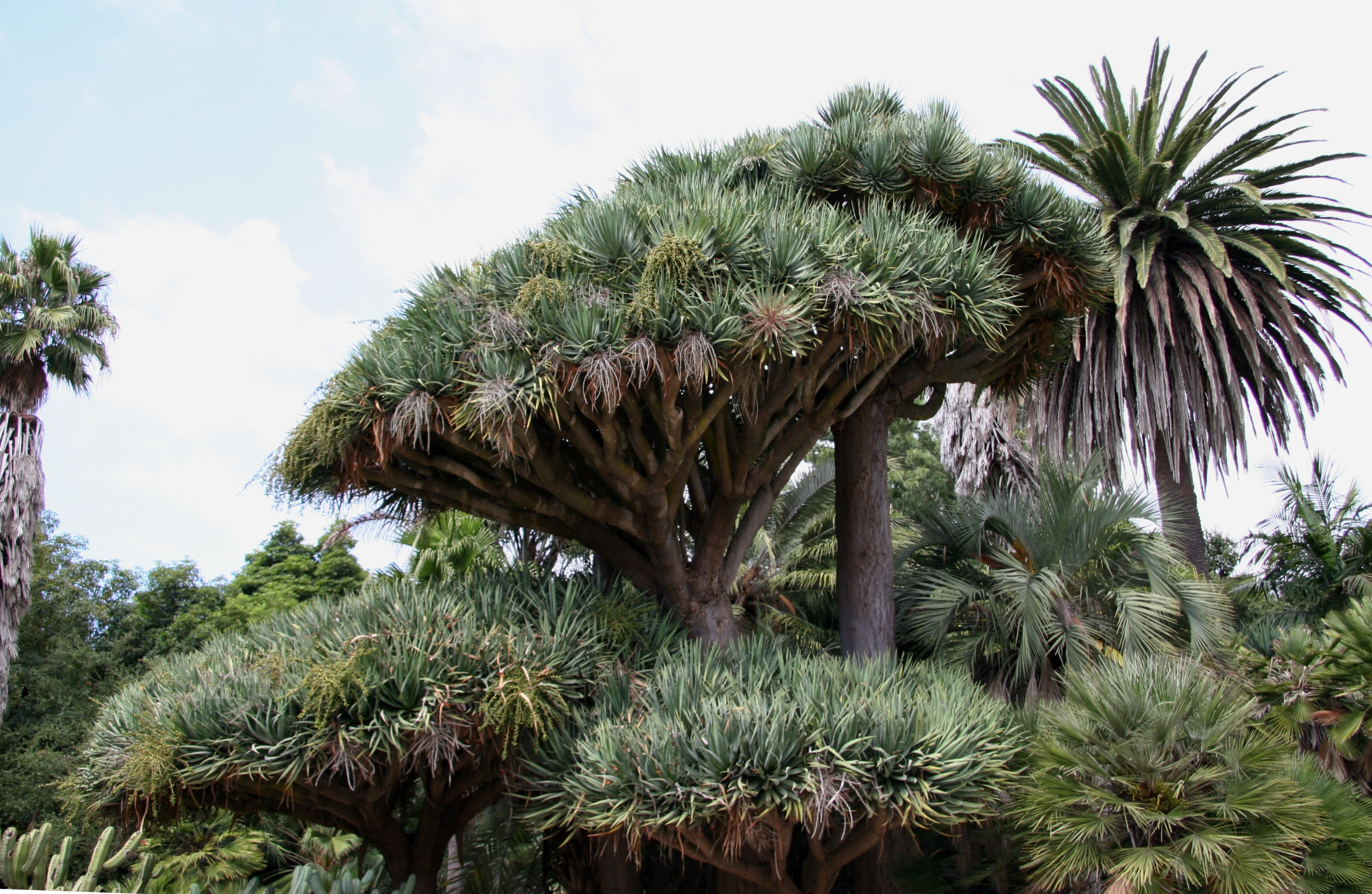 Dracaena draco — Dragon Tree, grove. Cultivated in the historic 'Lotusland' estate gardens — an 'open air' garden design museum, and botanic gardens. Located in Montecito, near Santa Barbara in Southern California.